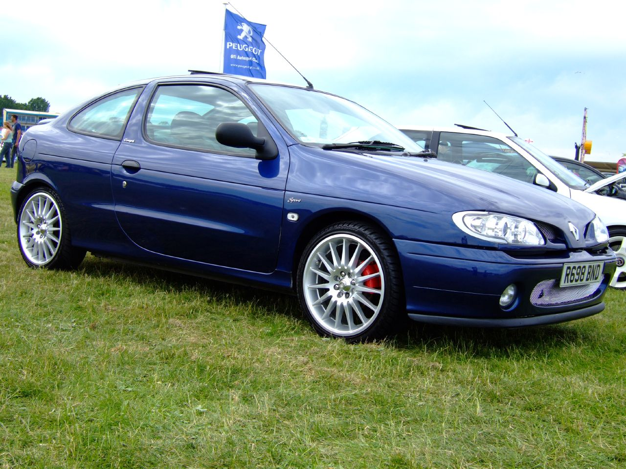 Renault Mégane Coupé